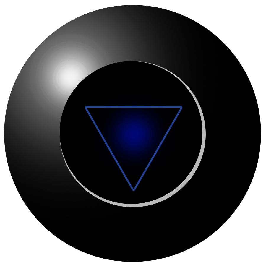 Magic eight ball.